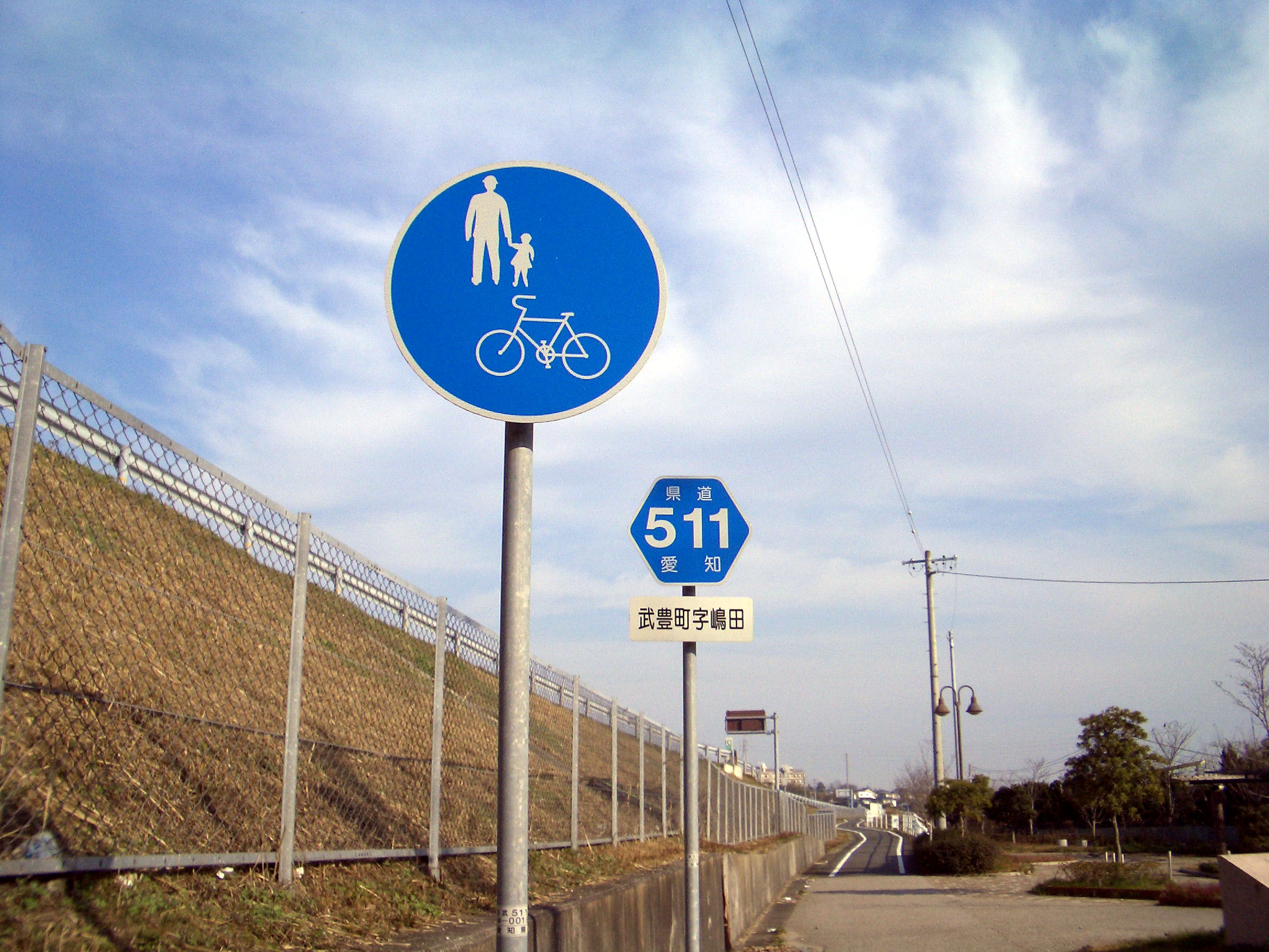 Aichi prefectural road 511, Taketoyo-Obu Cycling Road (Shimada T, Taketoyo, Aichi)